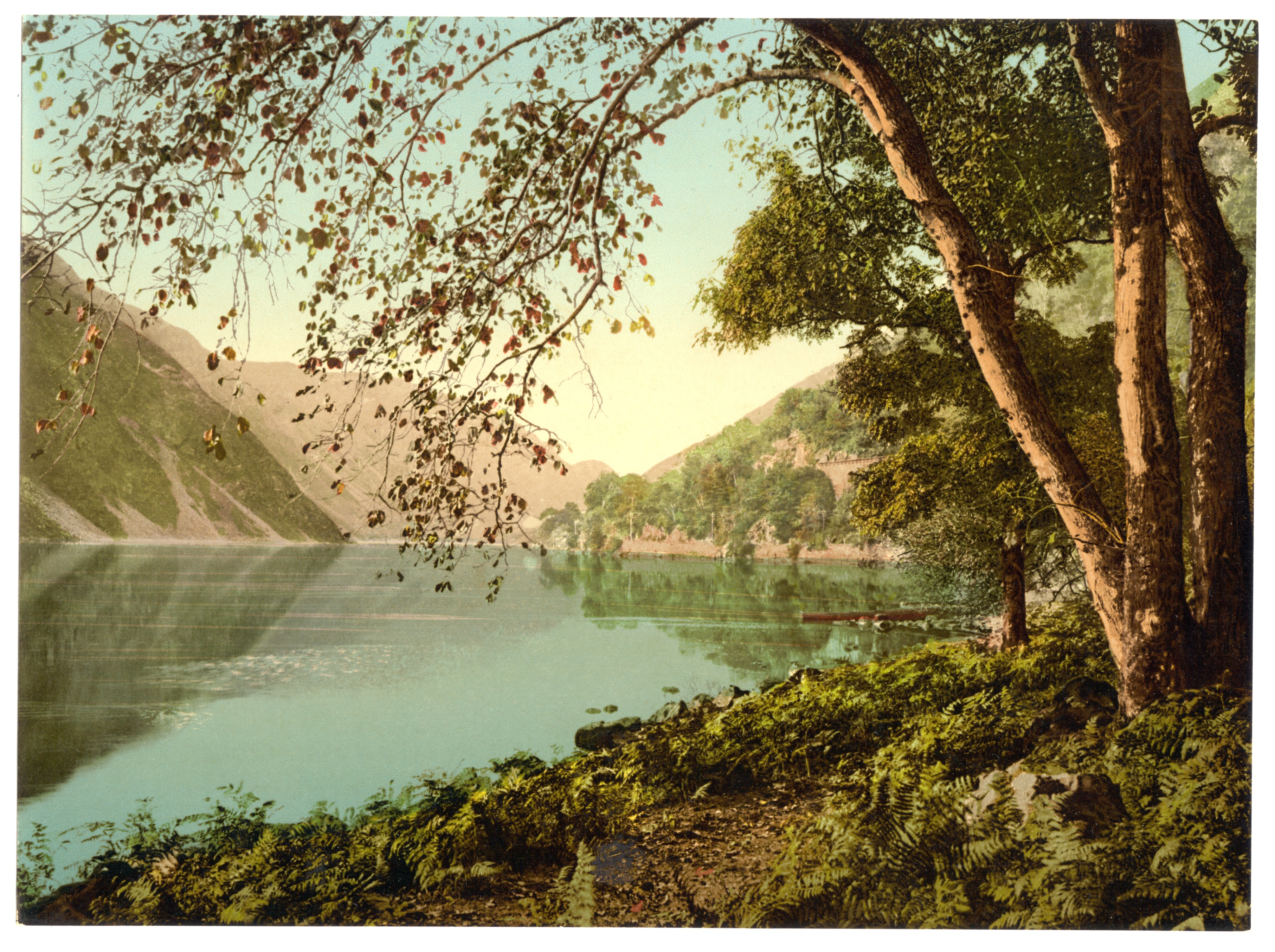 Title from the Detroit Publishing Co., catalogue J-foreign section. Detroit, Mich. : Detroit Photographic Company, 1905.; More information about the Photochrom Print Collection is available at Print no. "1523".; Forms part of: Views of landscape and architecture in Scotland in the Photochrom print collection.